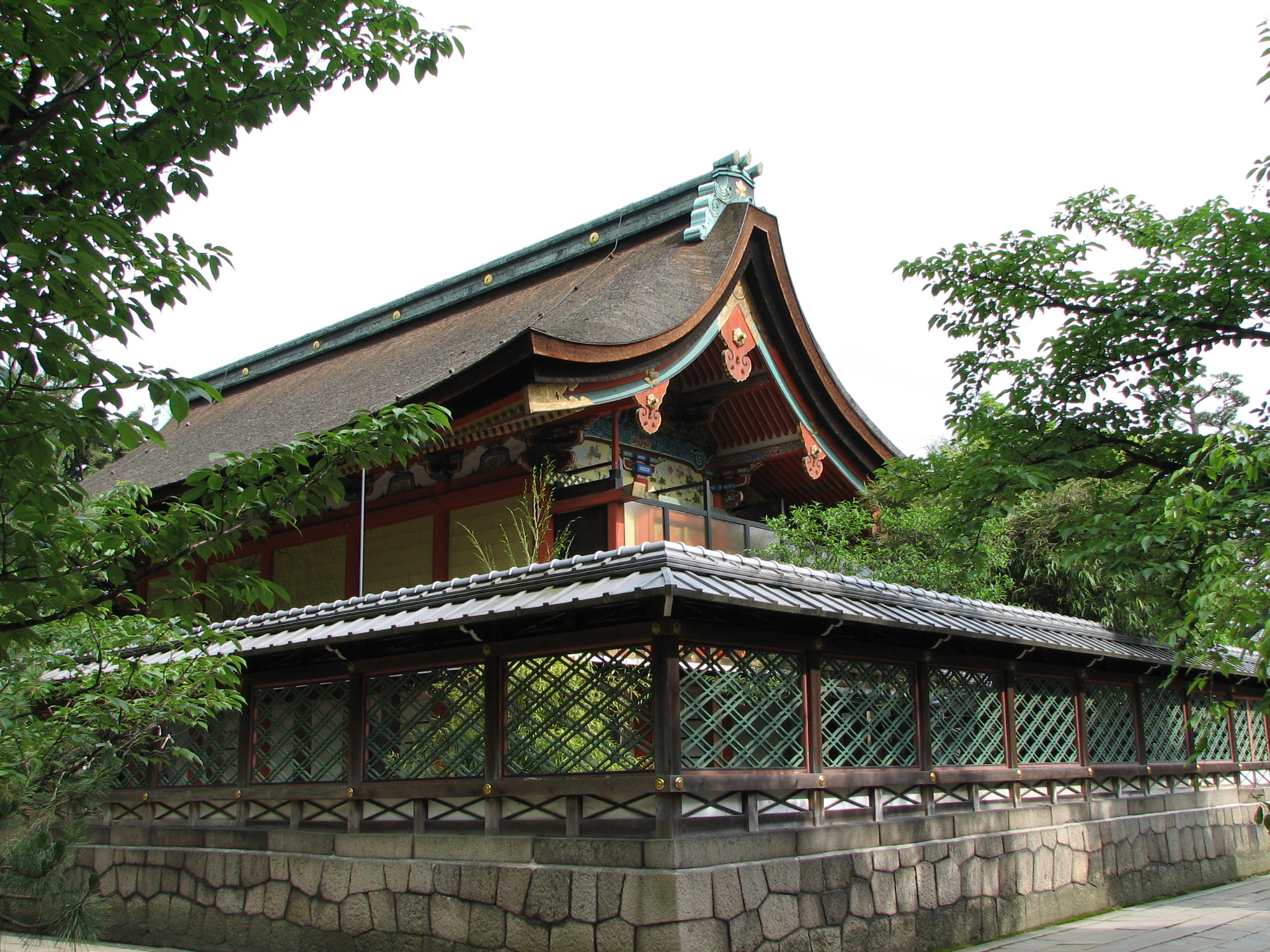 the honden of Gokōnomiya Shrine, Fushimi, Kyōtō, Japan 御香宮神社本殿（京都府伏見区）